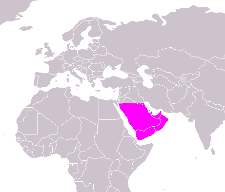 Map of the Arabian Peninsula.